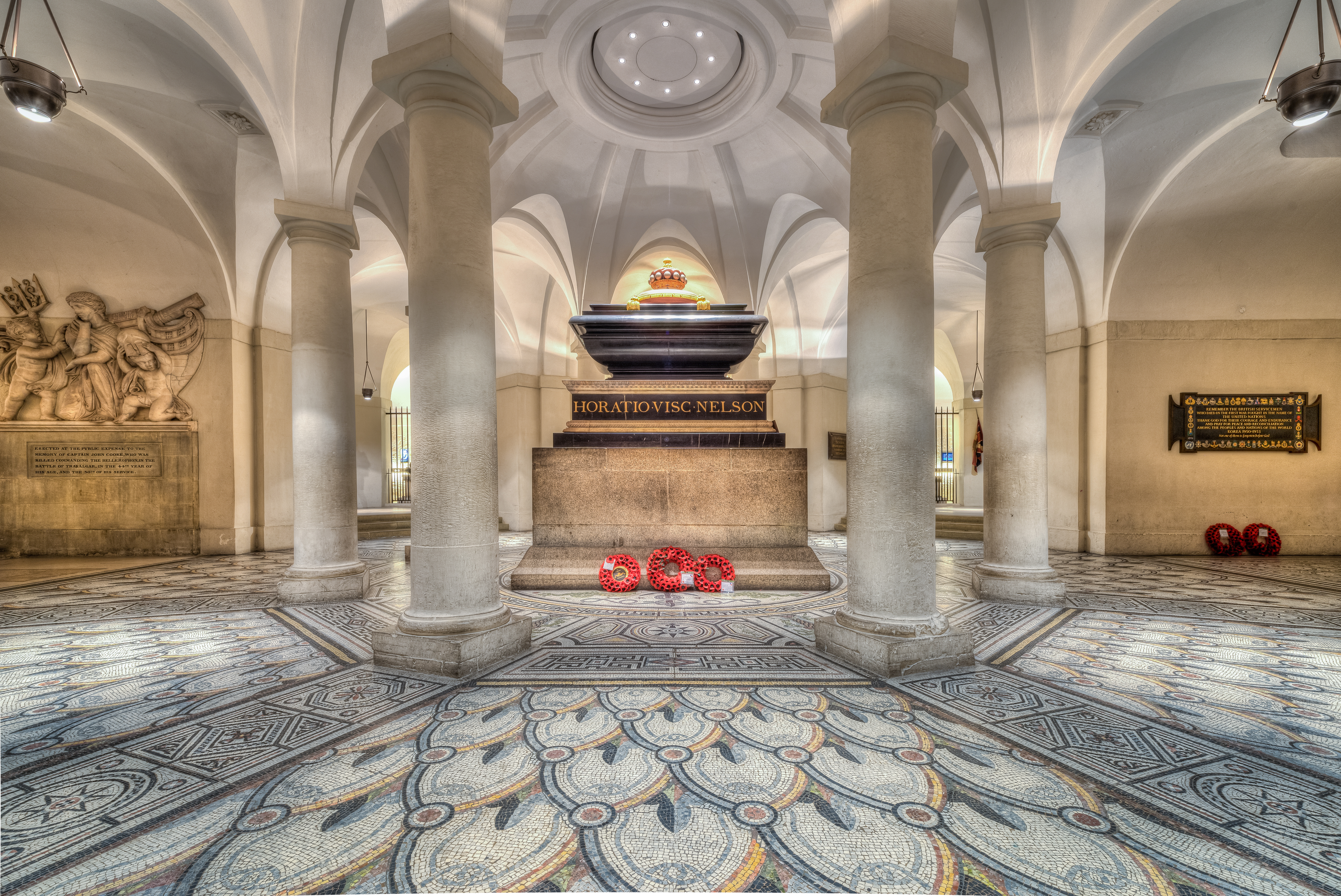 Tomb of Horatio Nelson, Saint-Paul's Cathedral, London, England